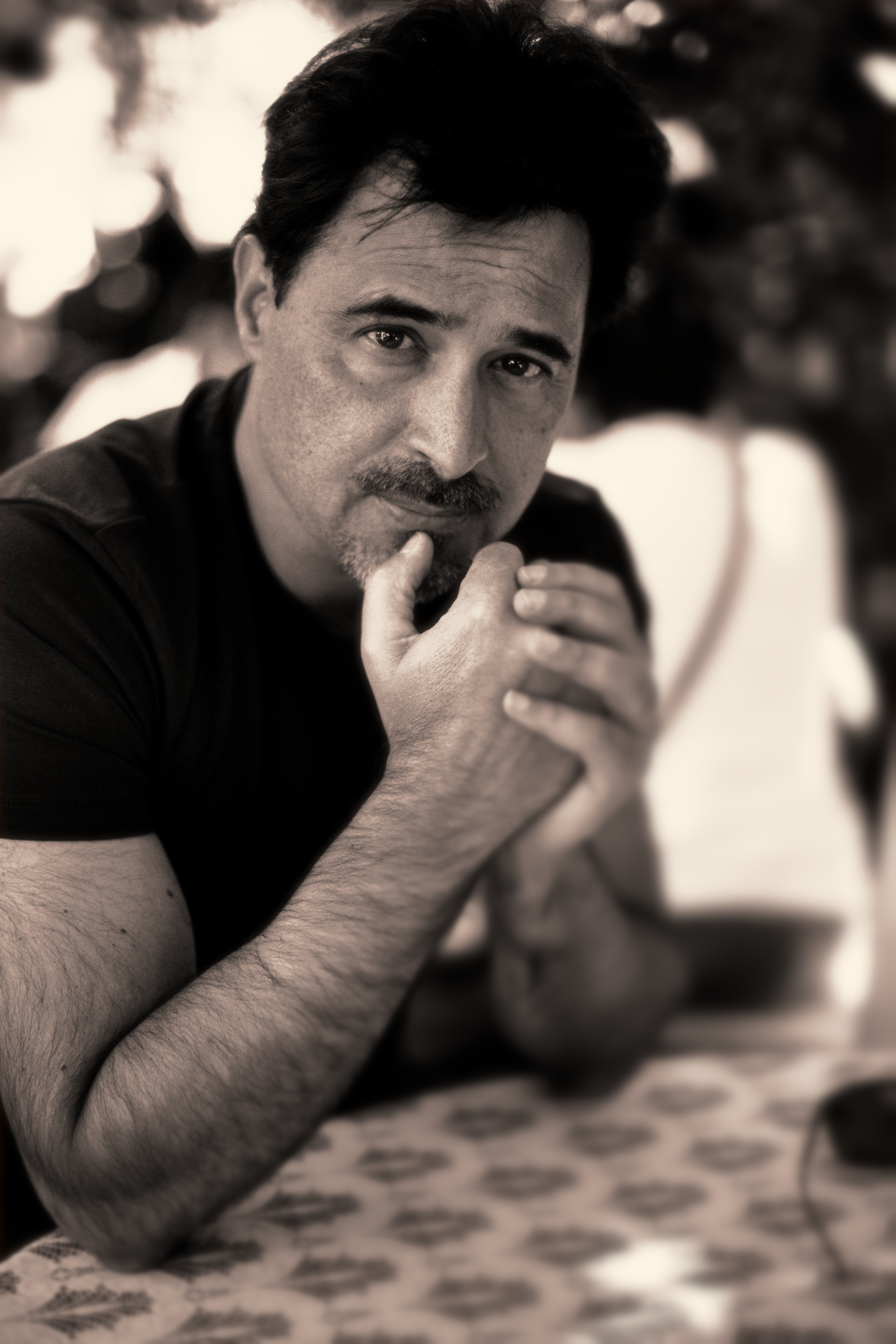 The Angolan writer José Eduardo AgualusaLëtzebuergesch: Den angolanesche Schrëftsteller José Eduardo Agualusa